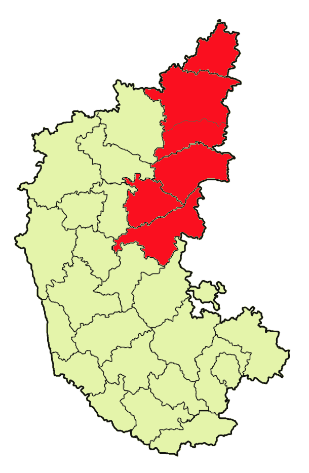 Locator map of Kalaburagi division, Karnataka, India